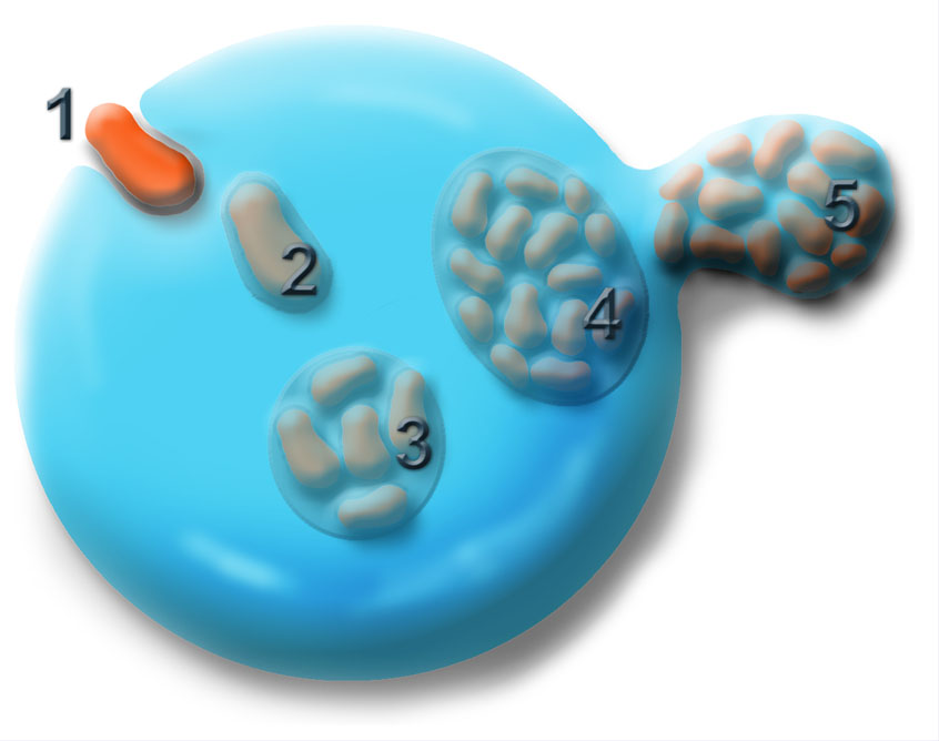 Infection of a cell by Ehrlicha. 1: bacteria entering in cell. 2, 3, 4 : reproduction and Morula in cytoplasm of a neutrophil